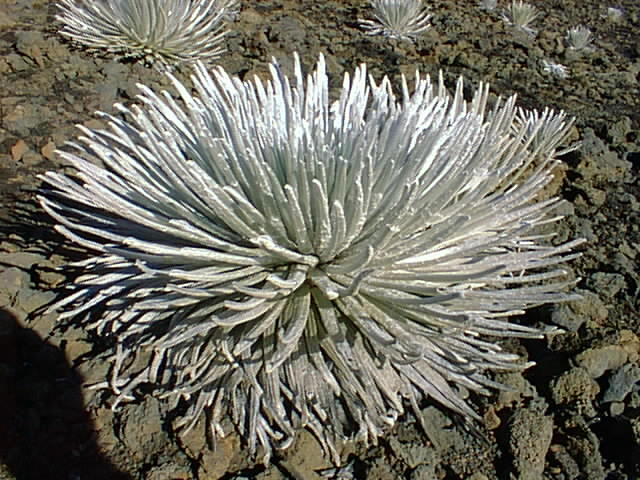 nl:Afbeelding:Silversword Haleakala.jpg